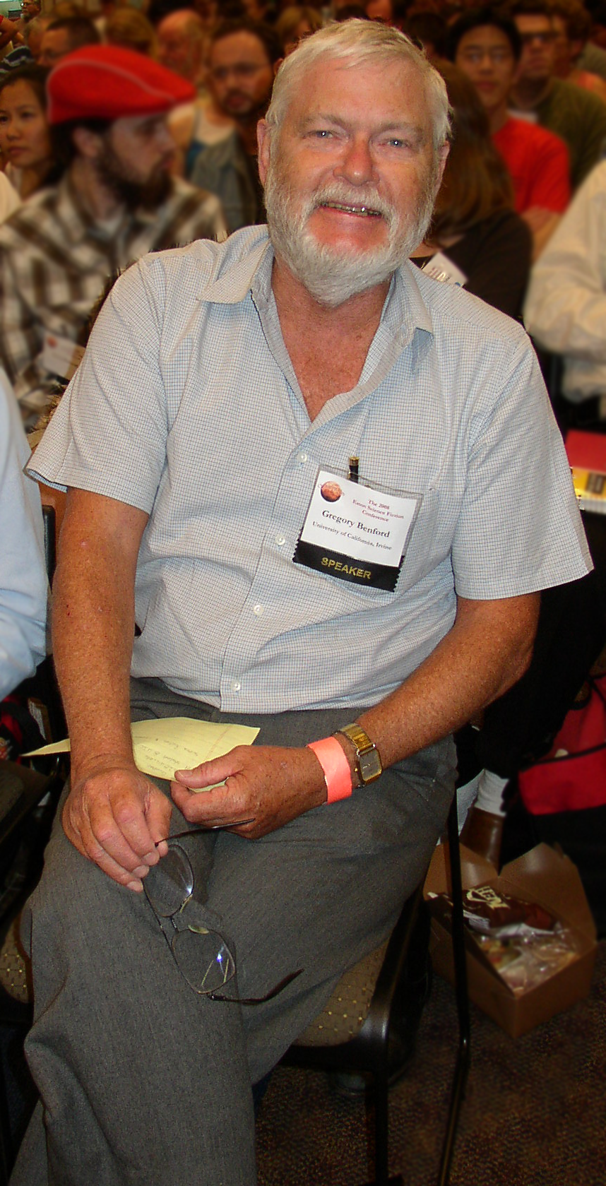 Greg Benford at the 2008 University of California, Riverside J. Lloyd Eaton Science Fiction Conference